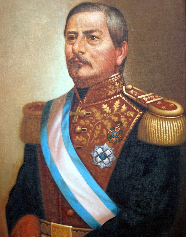 Capitán General Gerardo Barrios, president of El Salvador 1859 - 1863